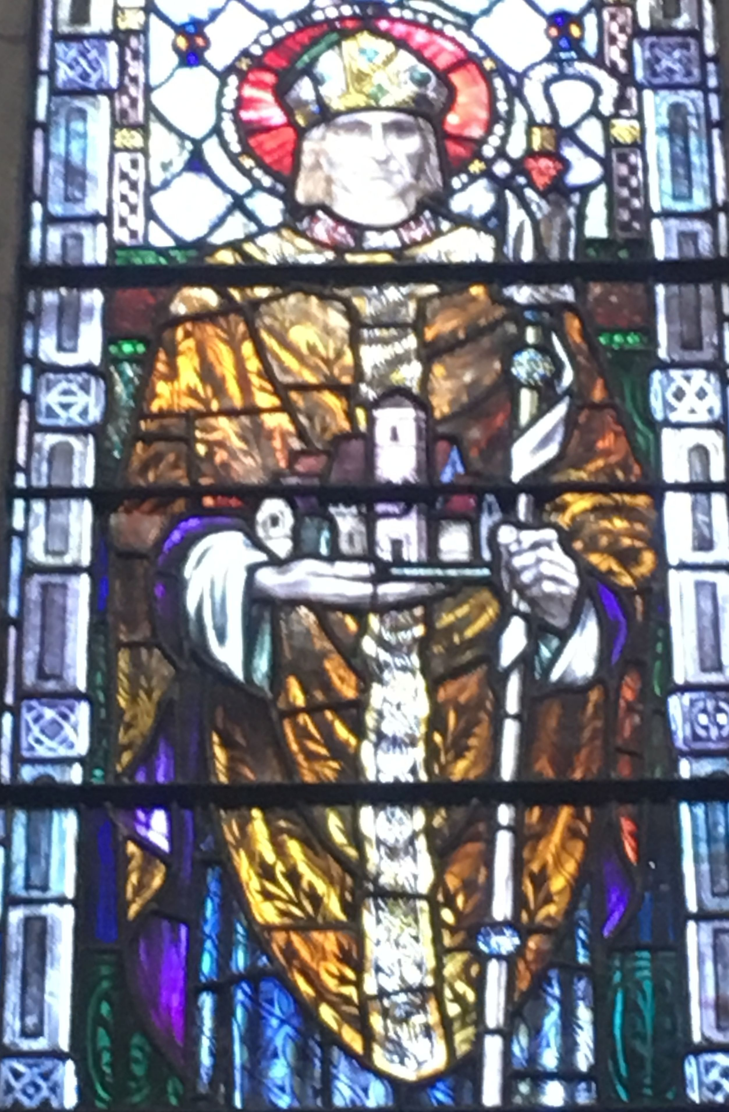 An Túr Gloine, Stained Glass Window, Honan Chapel, Cork, Ireland, c.1916